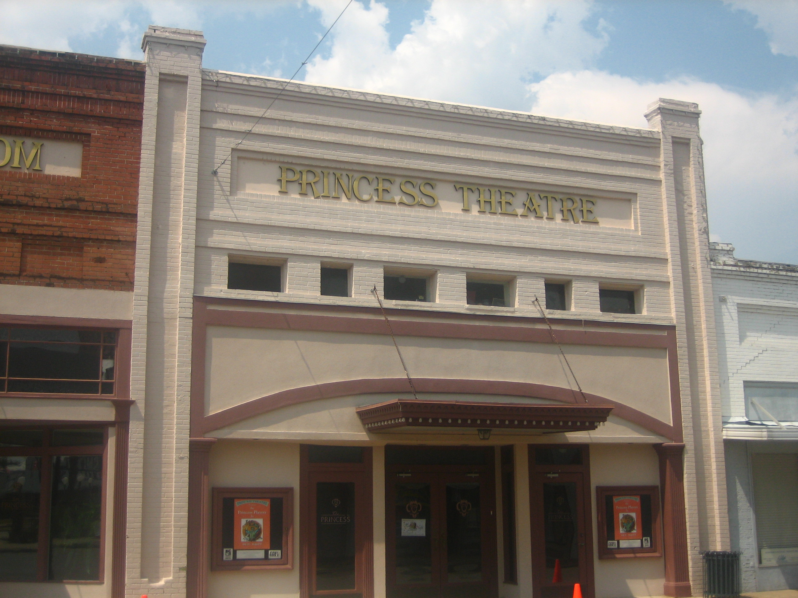 The Princess Theatre in downtown Winnsboro, Louisiana